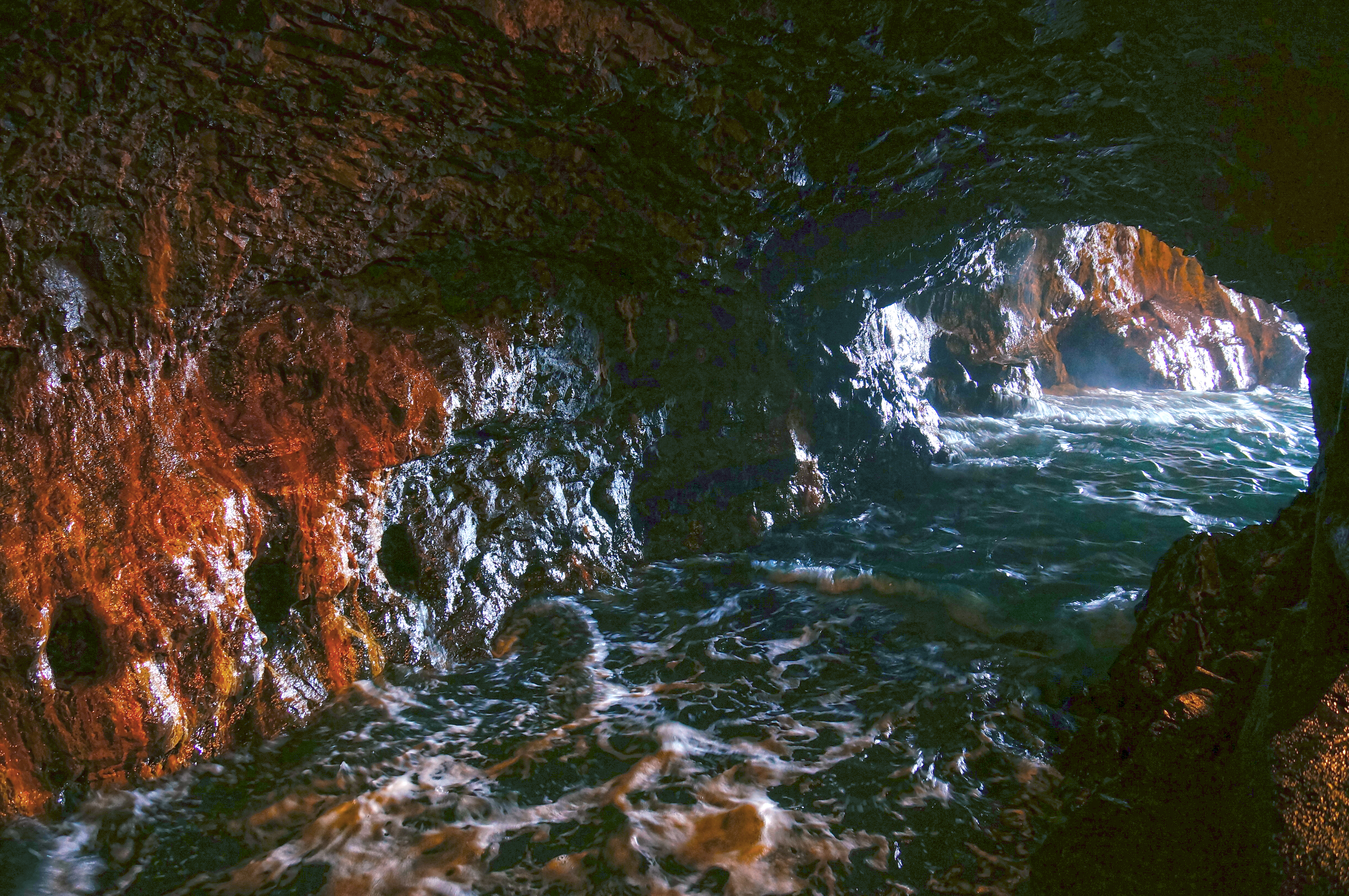 Sandanbeki in Shirahama, Wakayama prefecture, Japan.